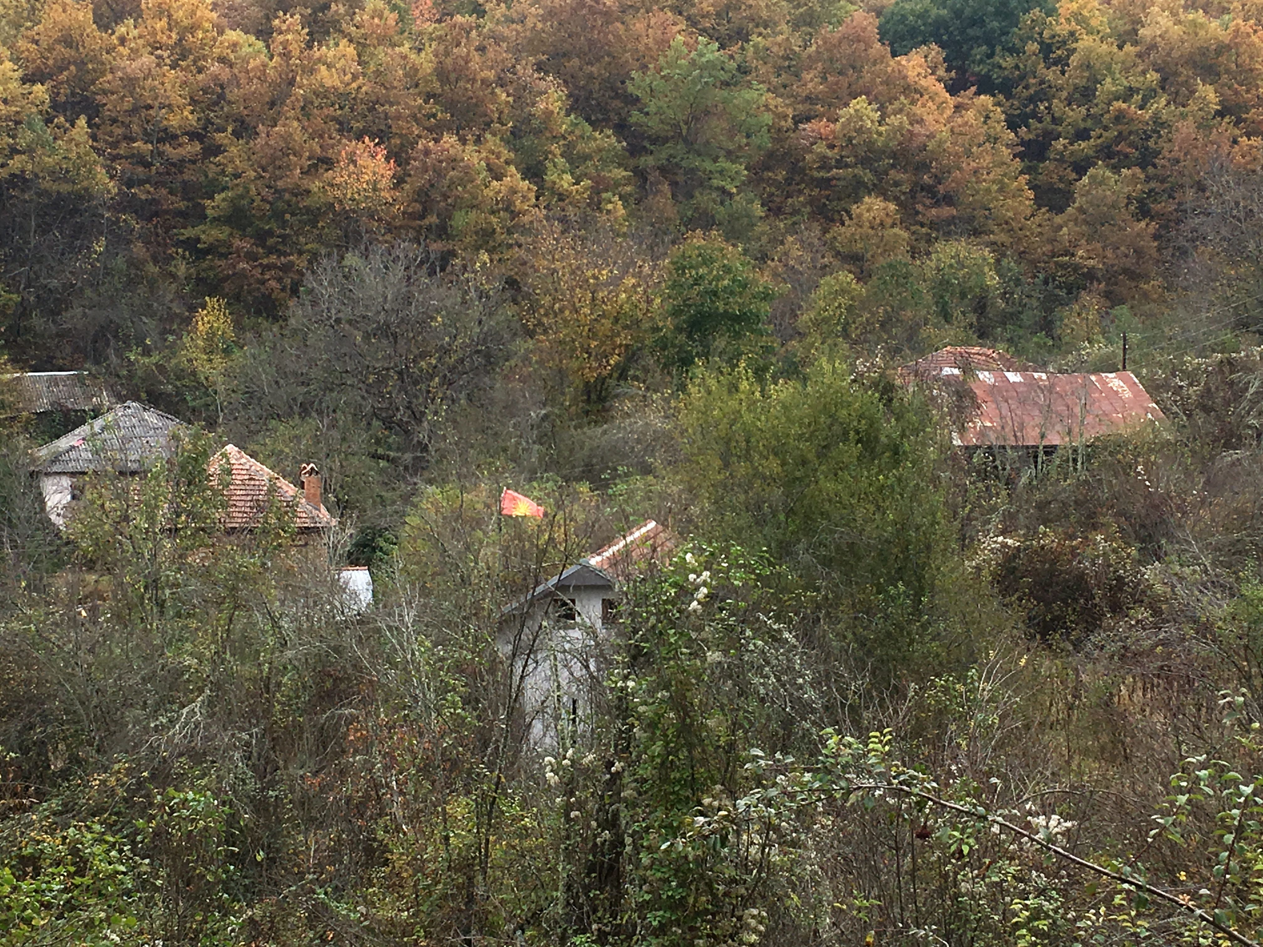 Wikiexpedition to Kopačka